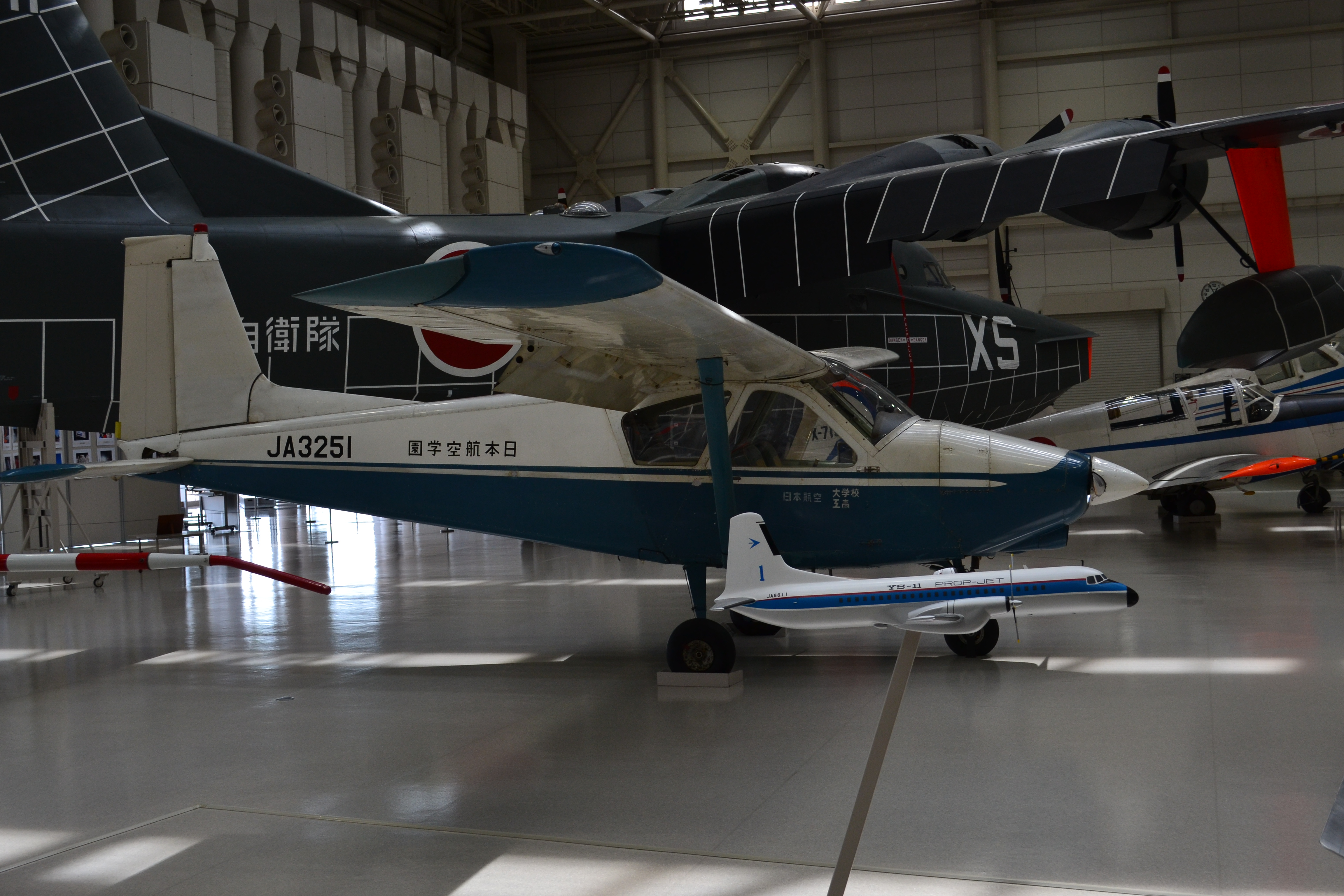 c/n 0101. Civilian Serial JA3251. STOL Light aircraft designed and built by Nihon University and first flown in 1964. Two and four seat variants were proposed, but only this example was built. She remain on display in Area A3 at Gifu-Kakamigahara Air and Space Museum, Kakamigahara, Gifu. 13th March 2020